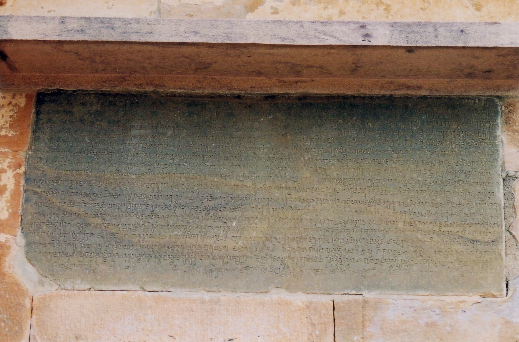 The Aihole Inscription of Ravi Kirti at the Meguti temple, a minister and poet in the court of Badami Chalukya King Pulakesi II, dated to 634 CE, is in Sanskrit language and old Kannada script. It is considered one of the finest pieces of extant poetry in the Sanskrit language and is a eulogy of King Pulakesi II and his conquests.(Ref:Encyclopaedia of the Hindu World, Volume 1, p.252, Gaṅgā Rām Garg, Concept Publishing Company, 1992, India, ISBN 81-7022-374-1; Portraits of a Nation: History of Ancient India: History, Kamlesh Kapur, Sterling Publishers Pvt. Ltd, Chapter 35, The Chalukyas of Badami, Brief history of the Chalukyas, New Delhi, ISBN 978 81 207 5212 2). At the end of the inscription is an endorsement in the Kannada language of slightly later date (ref:Indian Epigraphy, p.48, D.C. Sircar, Motilal Banarsidass Publ., 1965, New Delhi, ISBN 81-208-1166-6